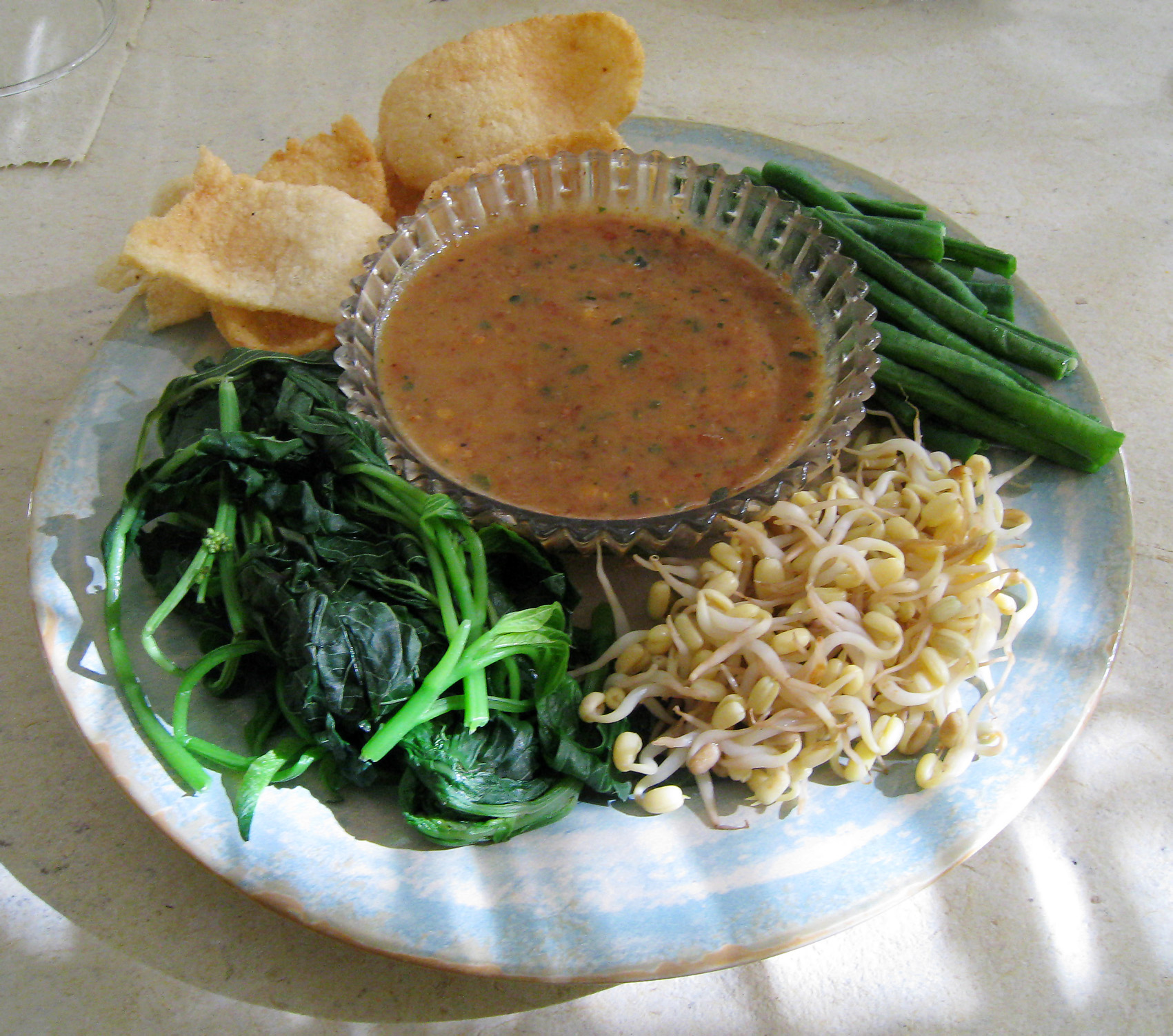 Pecel sometime spelled pecal, a Javanese salad of boiled spinach, beansprouts, yardlong beans, and krupuk, served in spicy peanut sauce. Served in a hotel in Solo (Surakarta), Central Java, Indonesia.